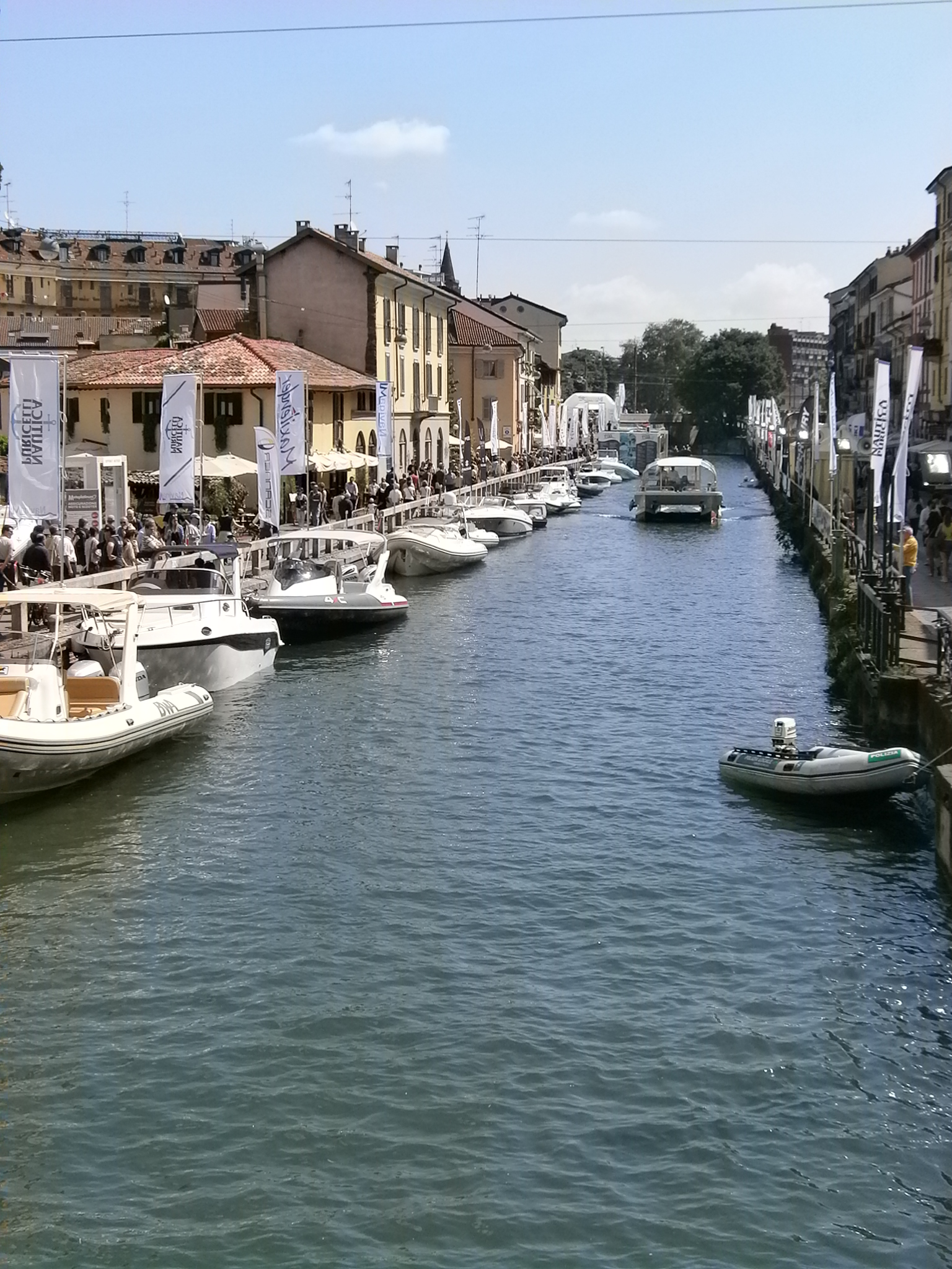 The Naviglio Grande in Milan - during fiera NavigaMi boat Show - salone nautico NavigaMi